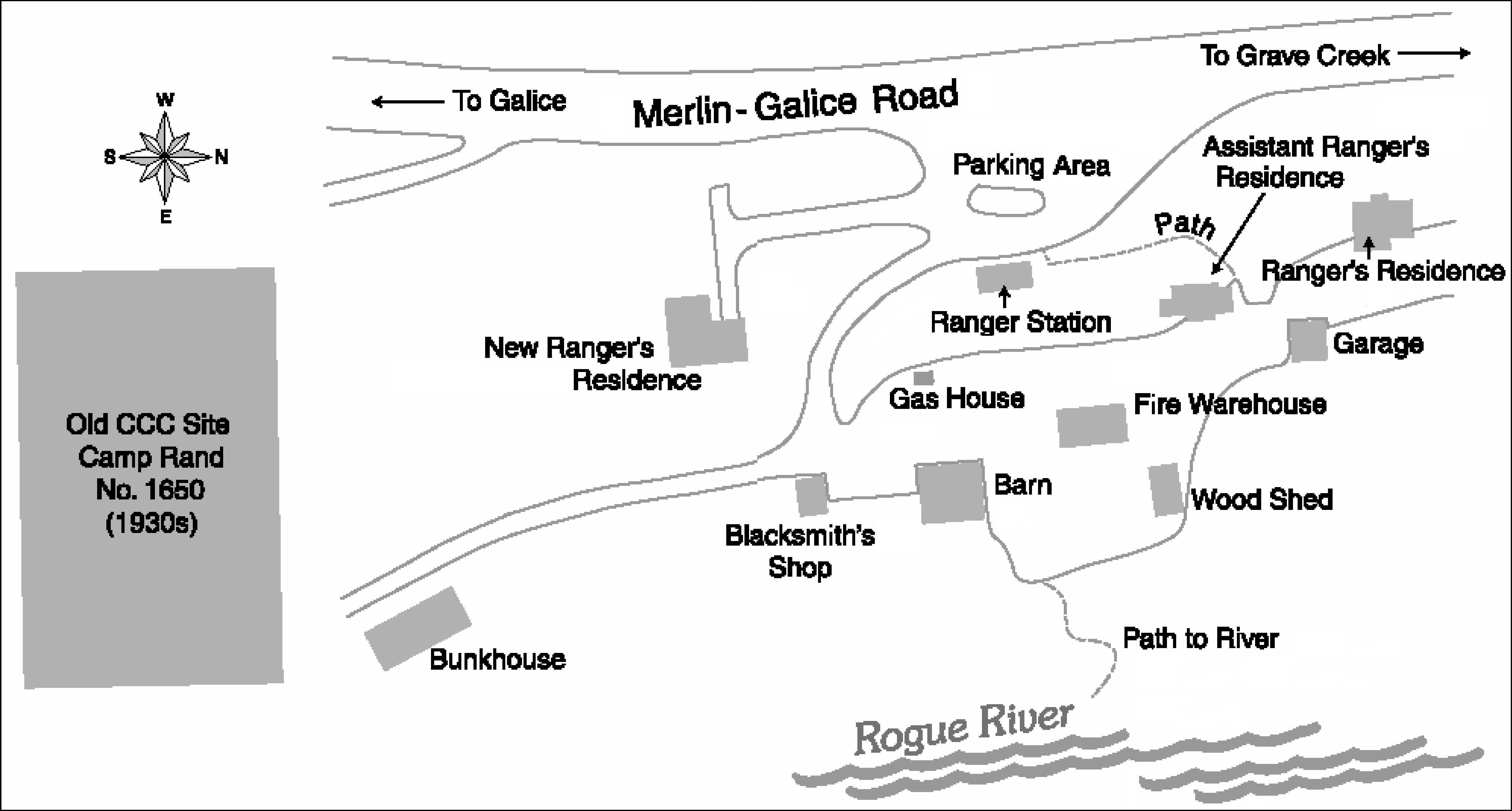 Site map of historic Rand Ranger Station; near Galice, Oregon